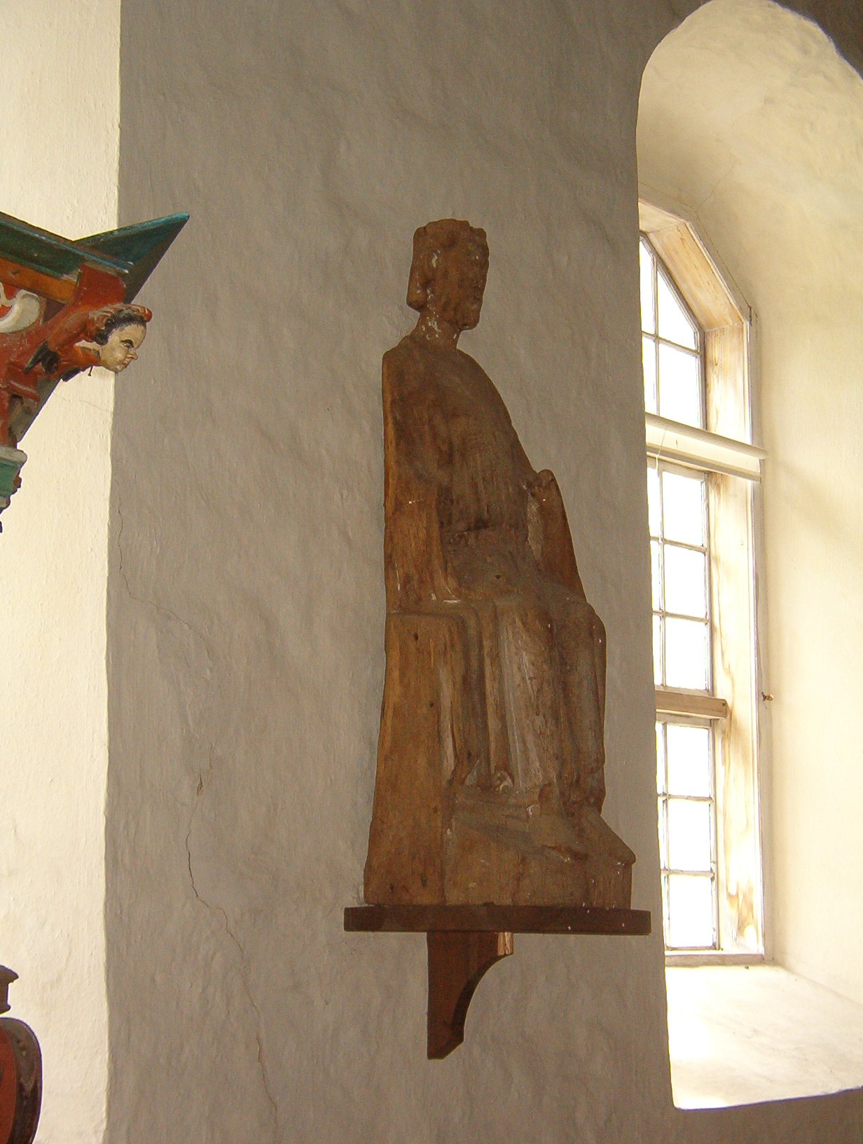 Statue from the 13th century of Saint Olav of Norway (it belonged to Norway at the time) Date July 2005